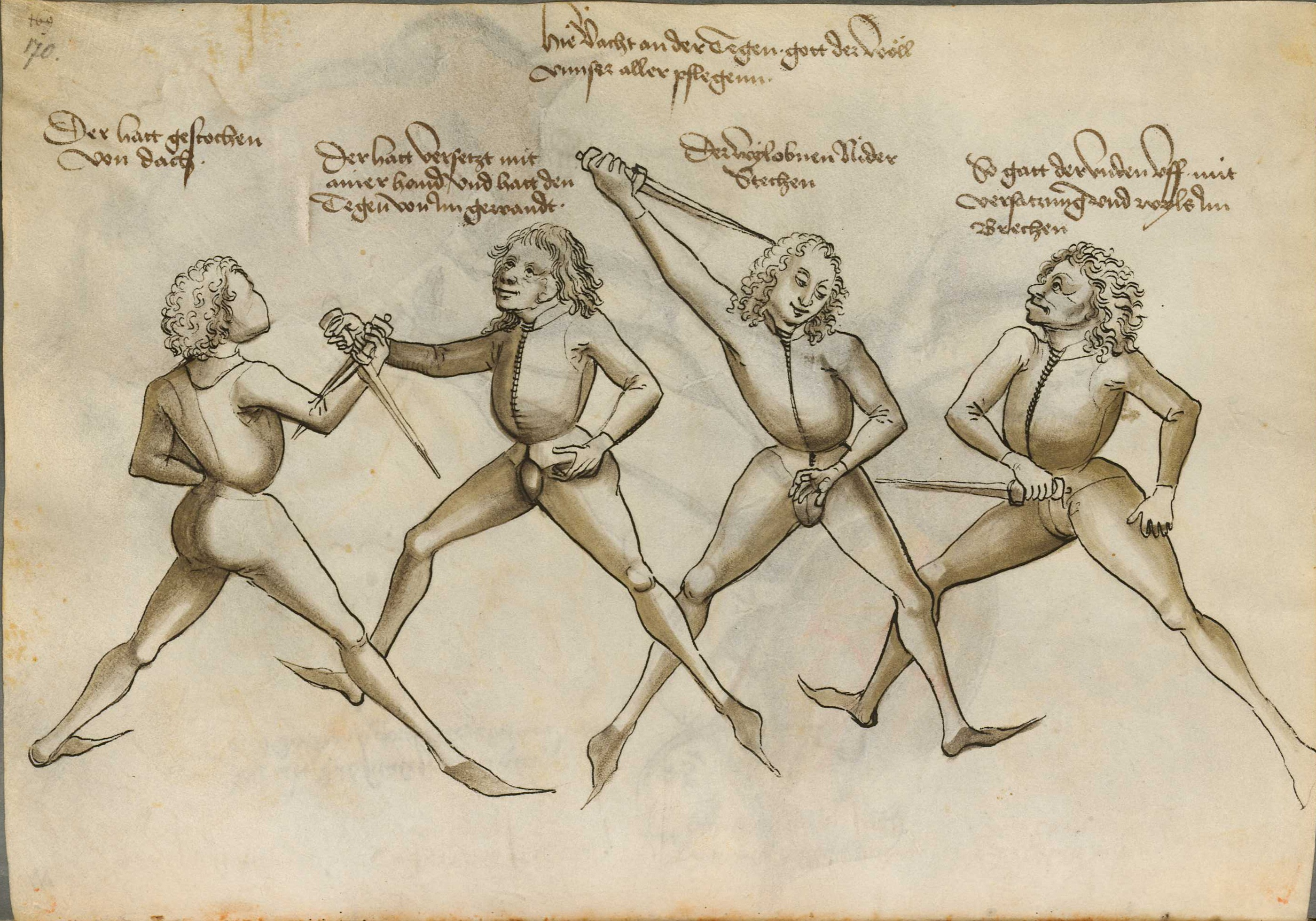 This is a scan of the historical Fechtbuch ('fencing book') by German fencing master Hans Talhoffer.